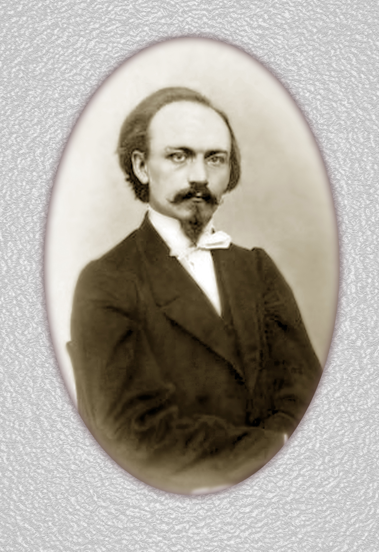 Körber Eduard Friedrich MD